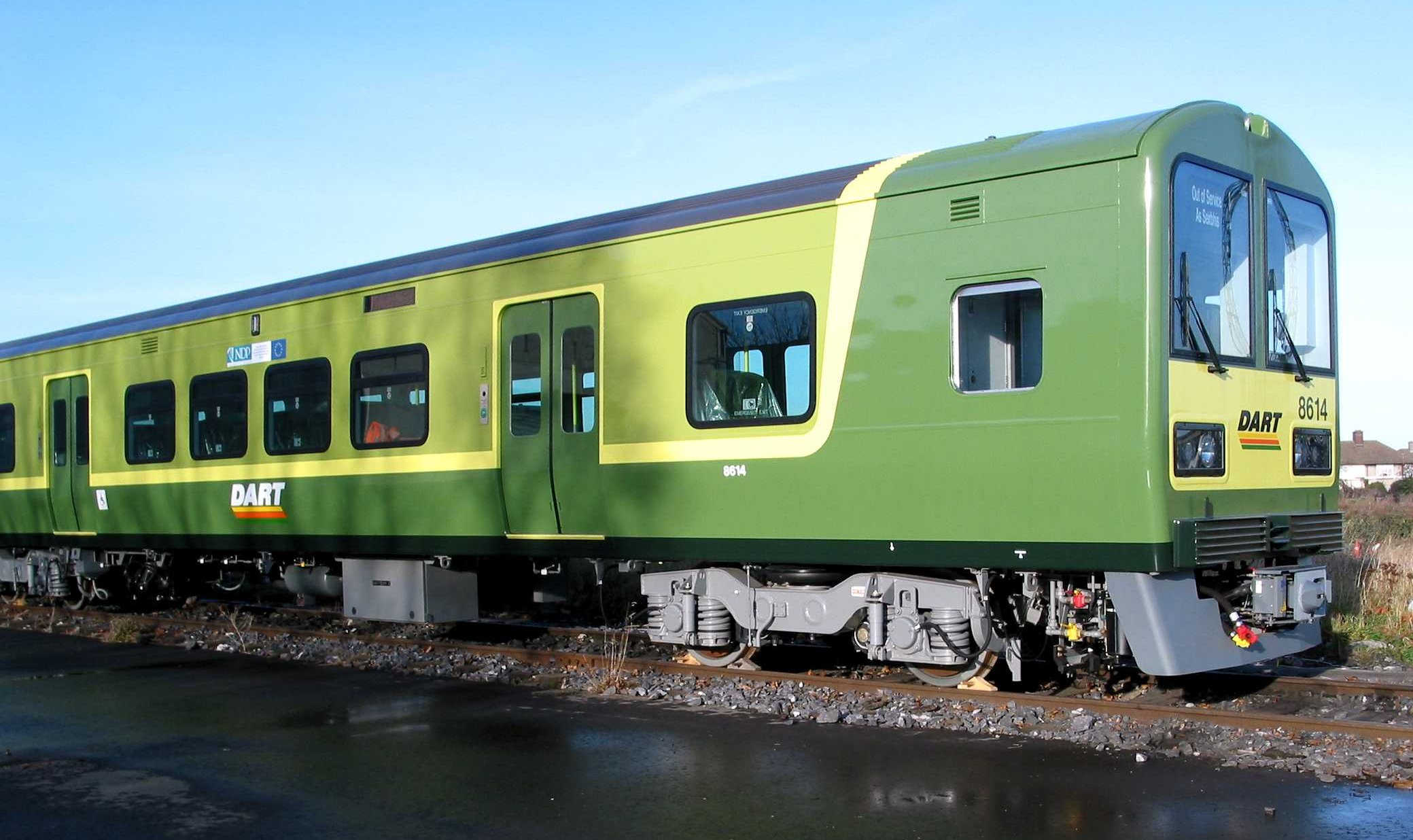 IÉ 8510 Class electric multiple unit